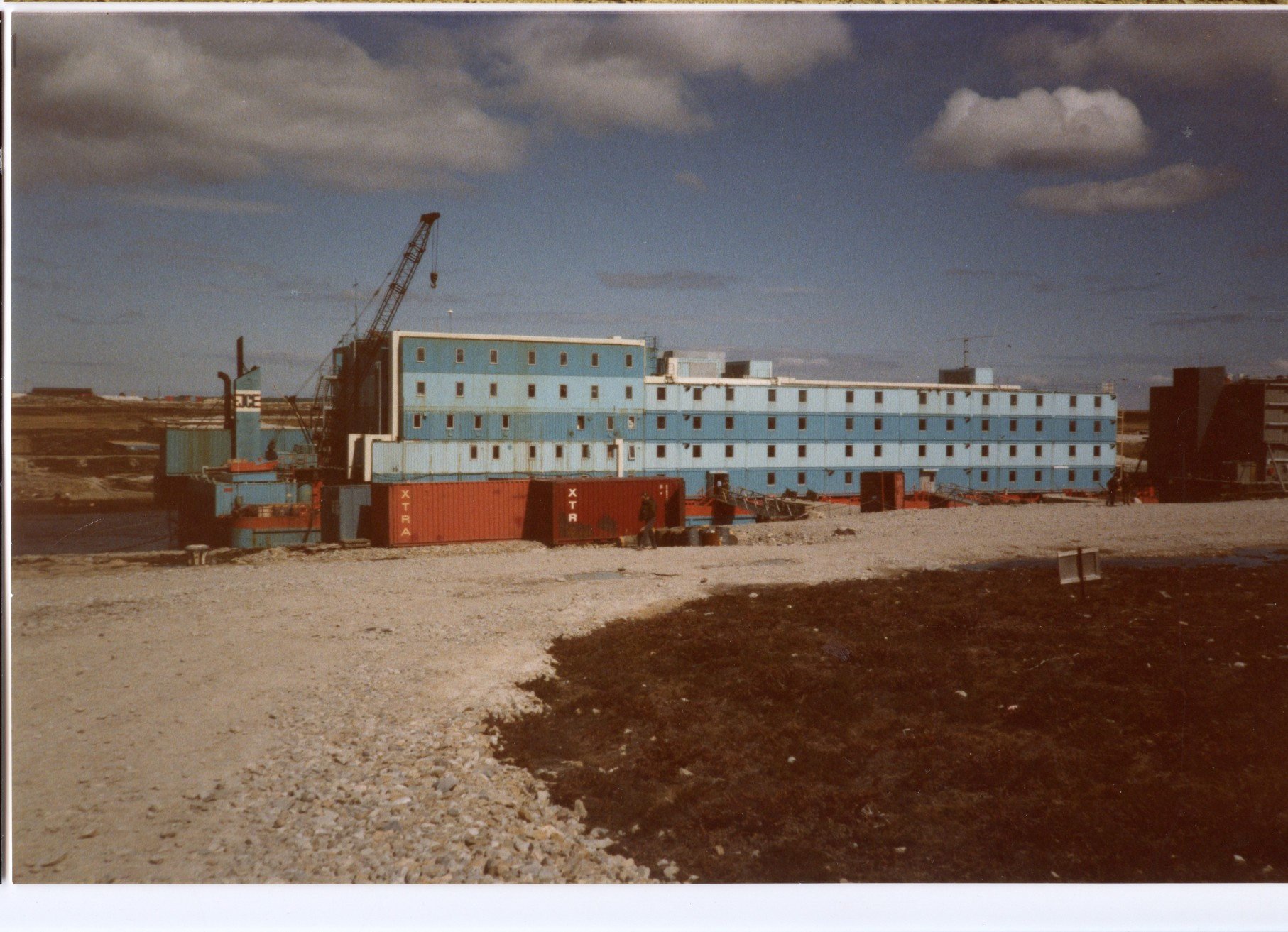 Falkland Islands, Stanley Airport, Coastel 2.